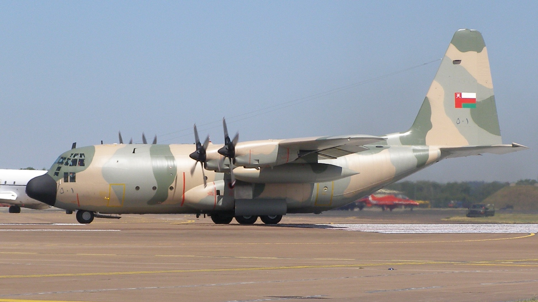 501 is a Lockheed Hercules of the Royal Air Force of Oman, it about to depart from the 2010 Royal International Air Tatoo at RAF Fairford, England